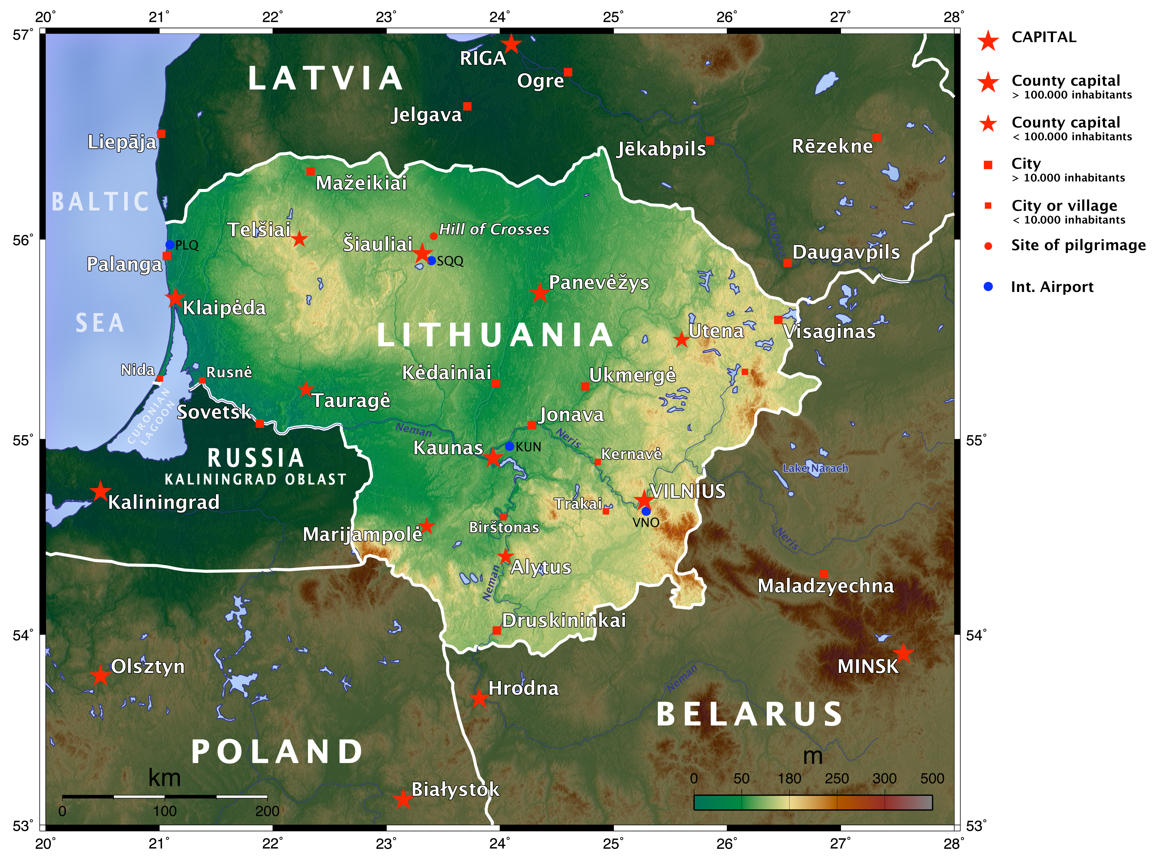 High resolution English language topographic map of Lithuania